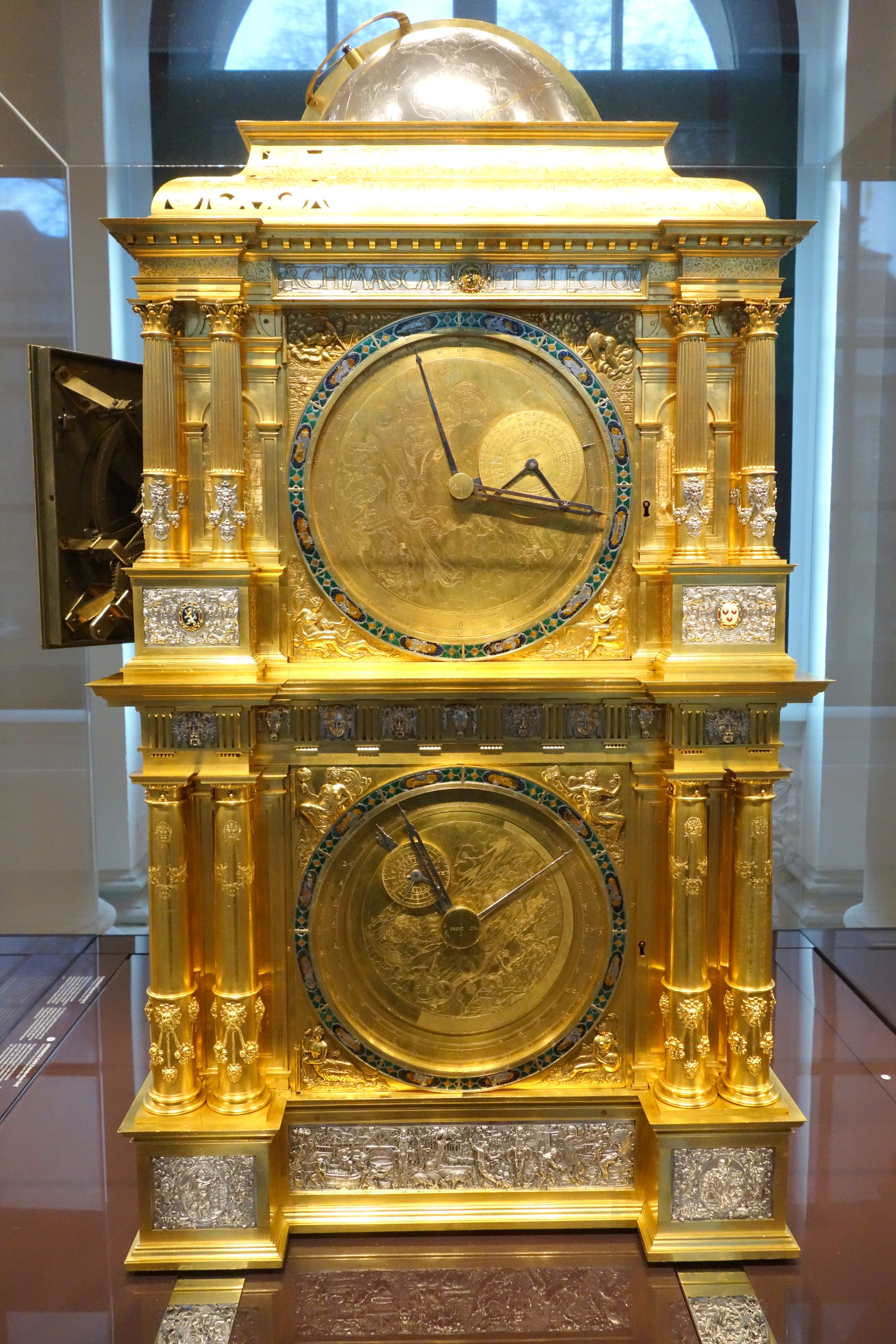 Astronomical clock by Eberhard Baldewein, 1563-1568. Exhibit in the Mathematisch-Physikalischer Salon (Zwinger), Dresden, Germany. This artwork is old enough so that it is in the public domain.